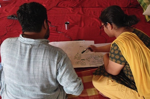 "Maps for Making Change", a 3-part workshop series with the Centre for Internet and Society, India, 2009. Photo by Kate Morioko.